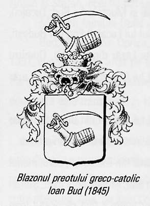 Coat of arms of Bud noble family from Maramureş